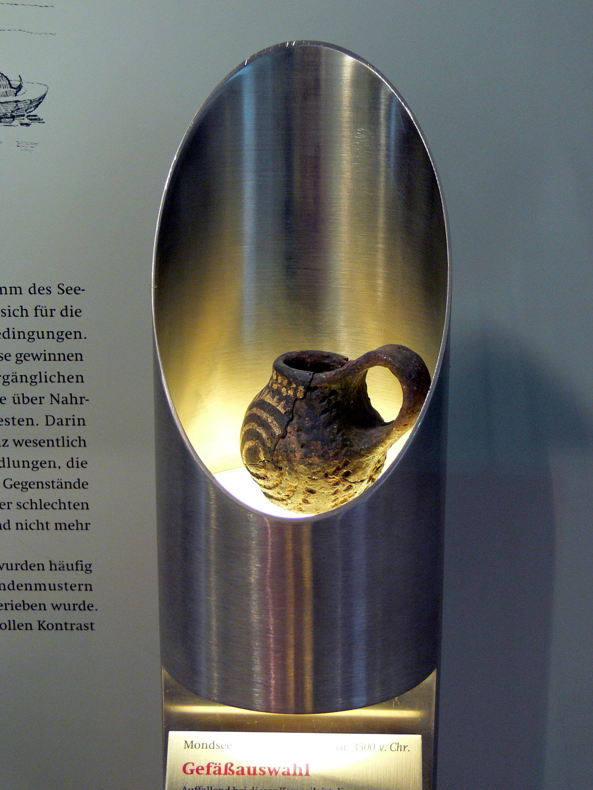 Castle museums in Linz ( Upper Austria ). Archeological collection: Small ceramics, late neolithic Mondsee-culture.